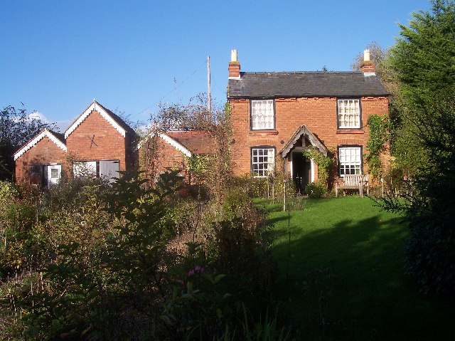 Elgar's Birthplace. Sir Edward Elgar was born here 2 June 1857. Now part of a fascinating museum.